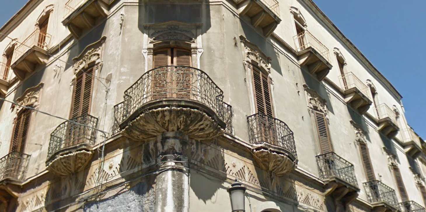 Palazzo, Piazza Principessa Iolanda (Margherita di Savoia), Catania